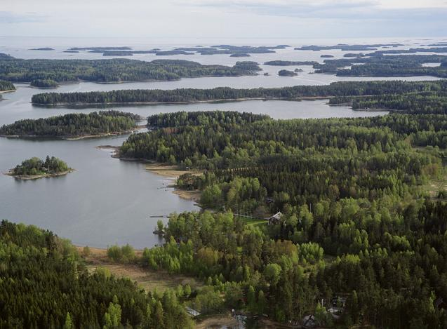 Aerial photograph of Rågö island in Raseborg, Finland